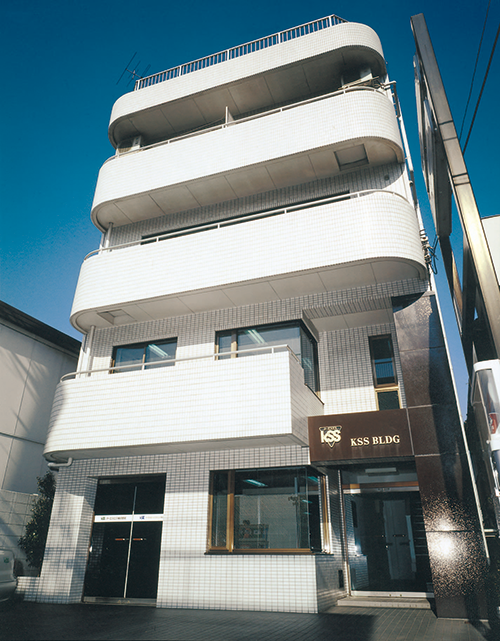 KSS Head Office